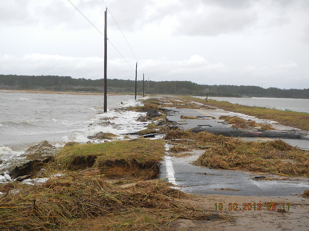 Heavy damage occurred to the road leading to the Toms Cove Visitor Center. Credit: USFWS Stay informed